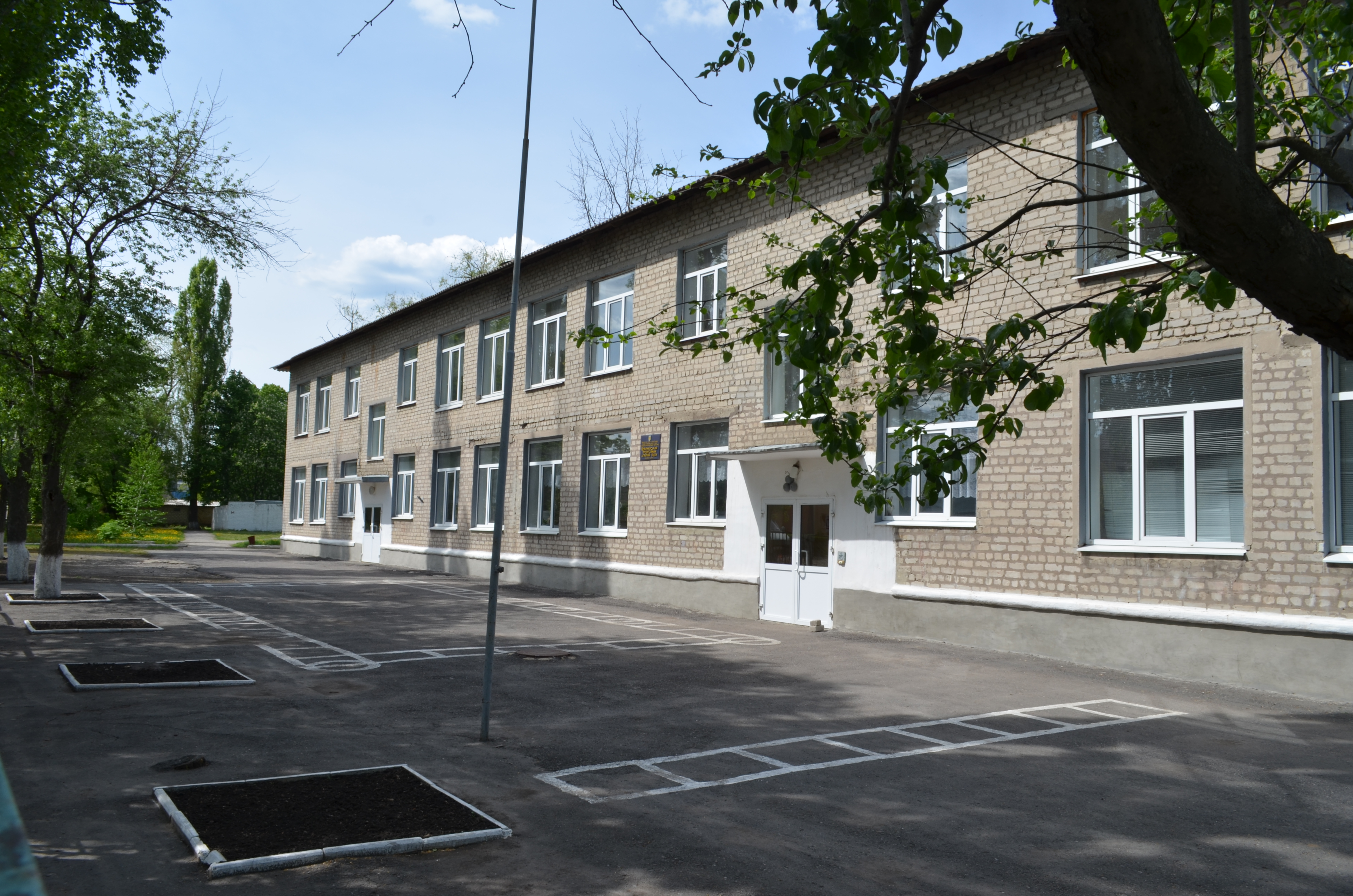 Shevchenkove Professional Agrarian Lyceum